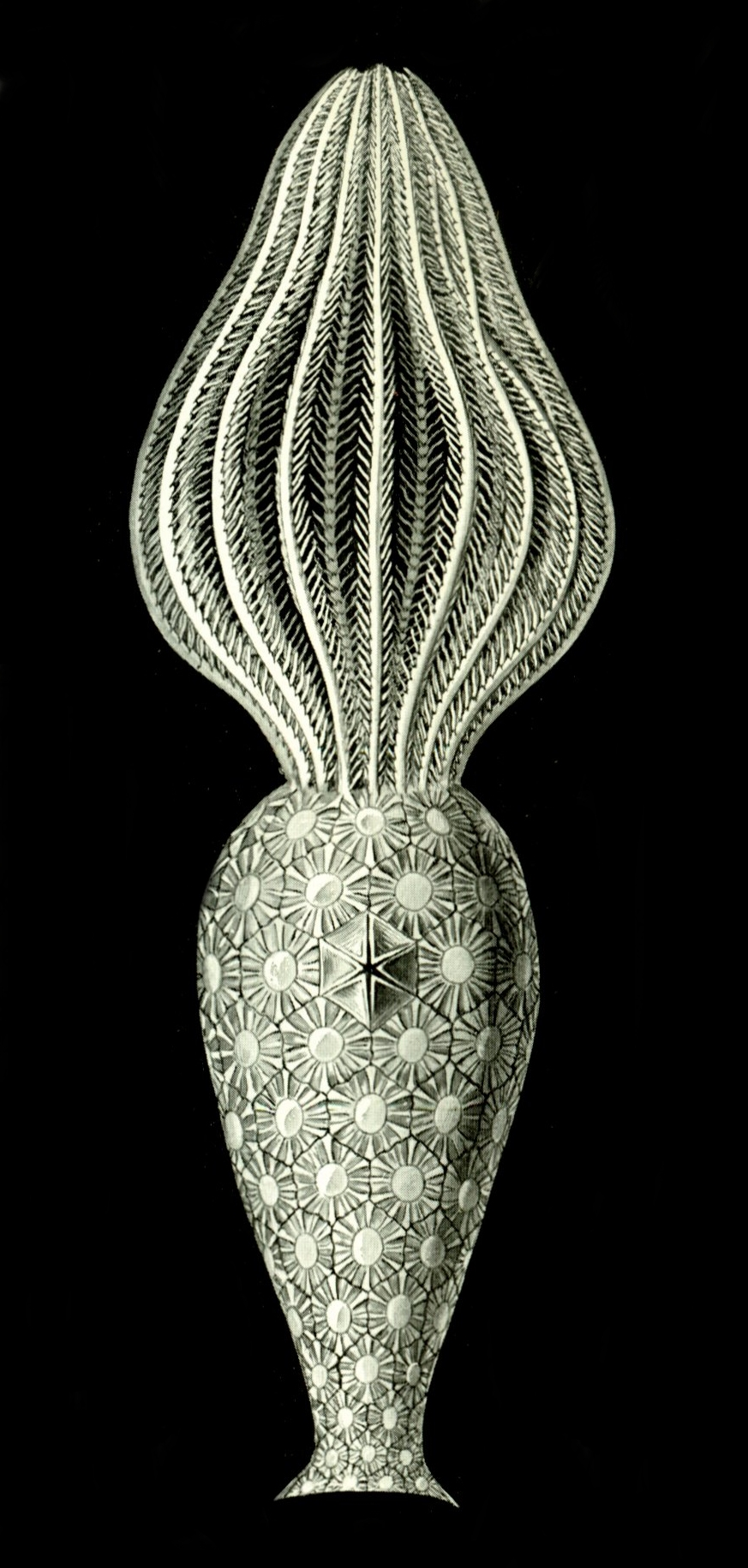 Haeckel Amphoridea-6. See here for index to numbers.